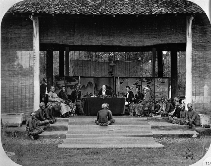 Session of the Regional Council in Pati, Central Java